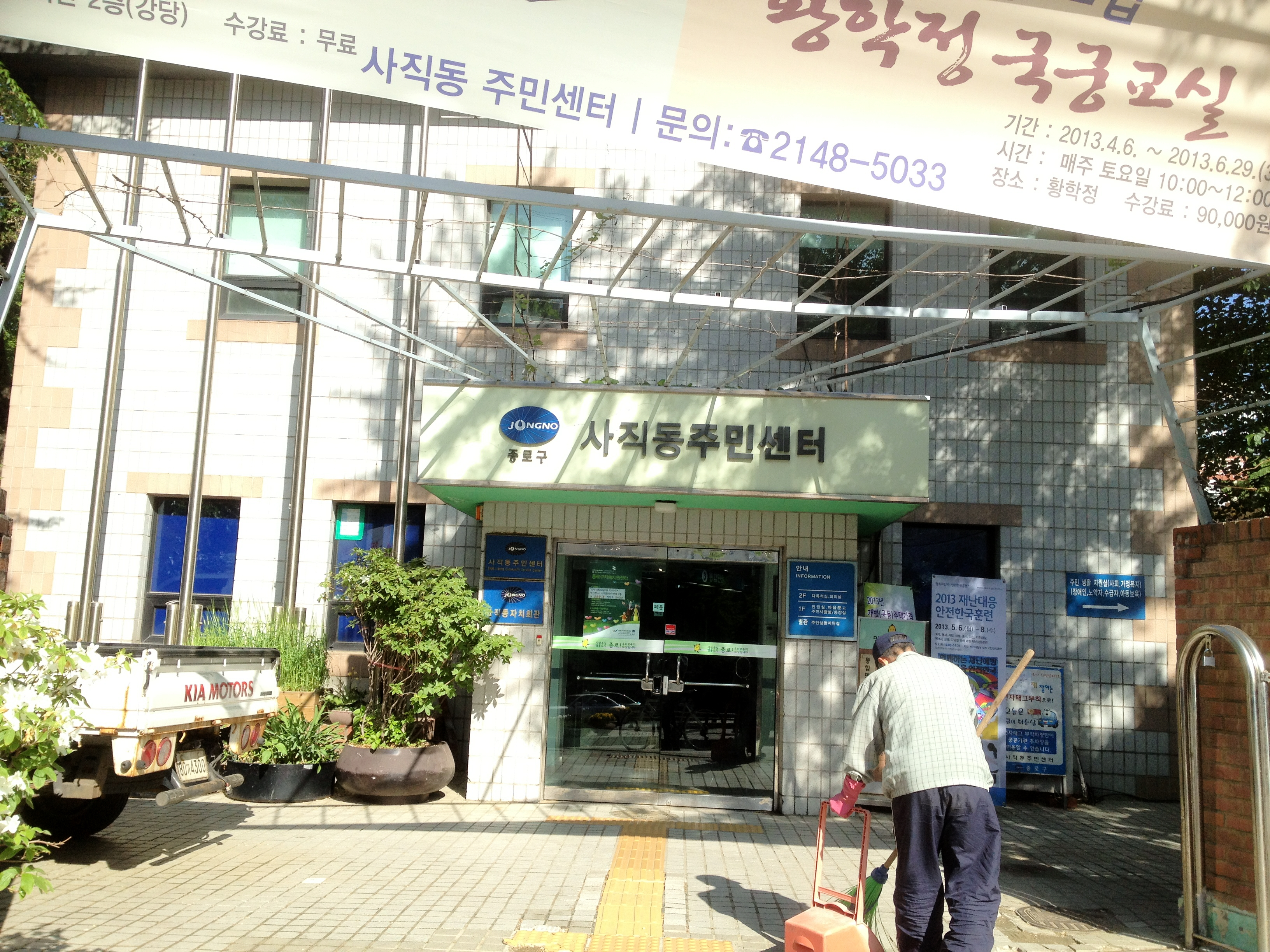 Sajik-dong Comunity Service Center(Jongno-gu)